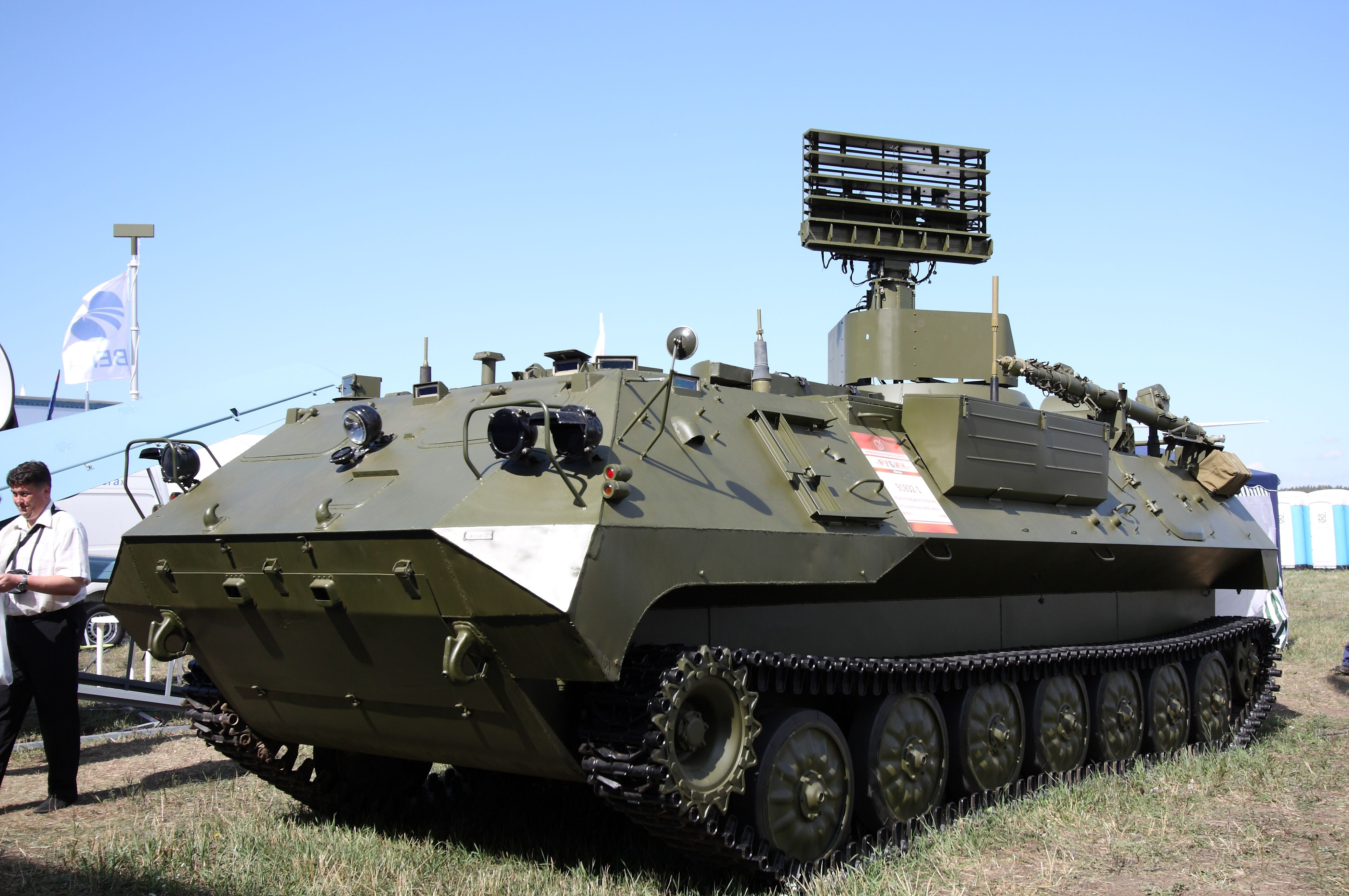 Reconnoitring and control unit 9S932T-1 MRU-B from Barnaul-T (The international aerospace salon MAKS-2011)